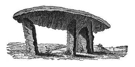 Lanyon Quoit - Morvah - Cornwall - UK